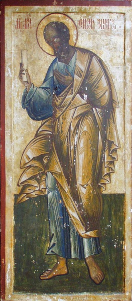 Saint Simeon, Russian icon from first quarter of 18th cen.